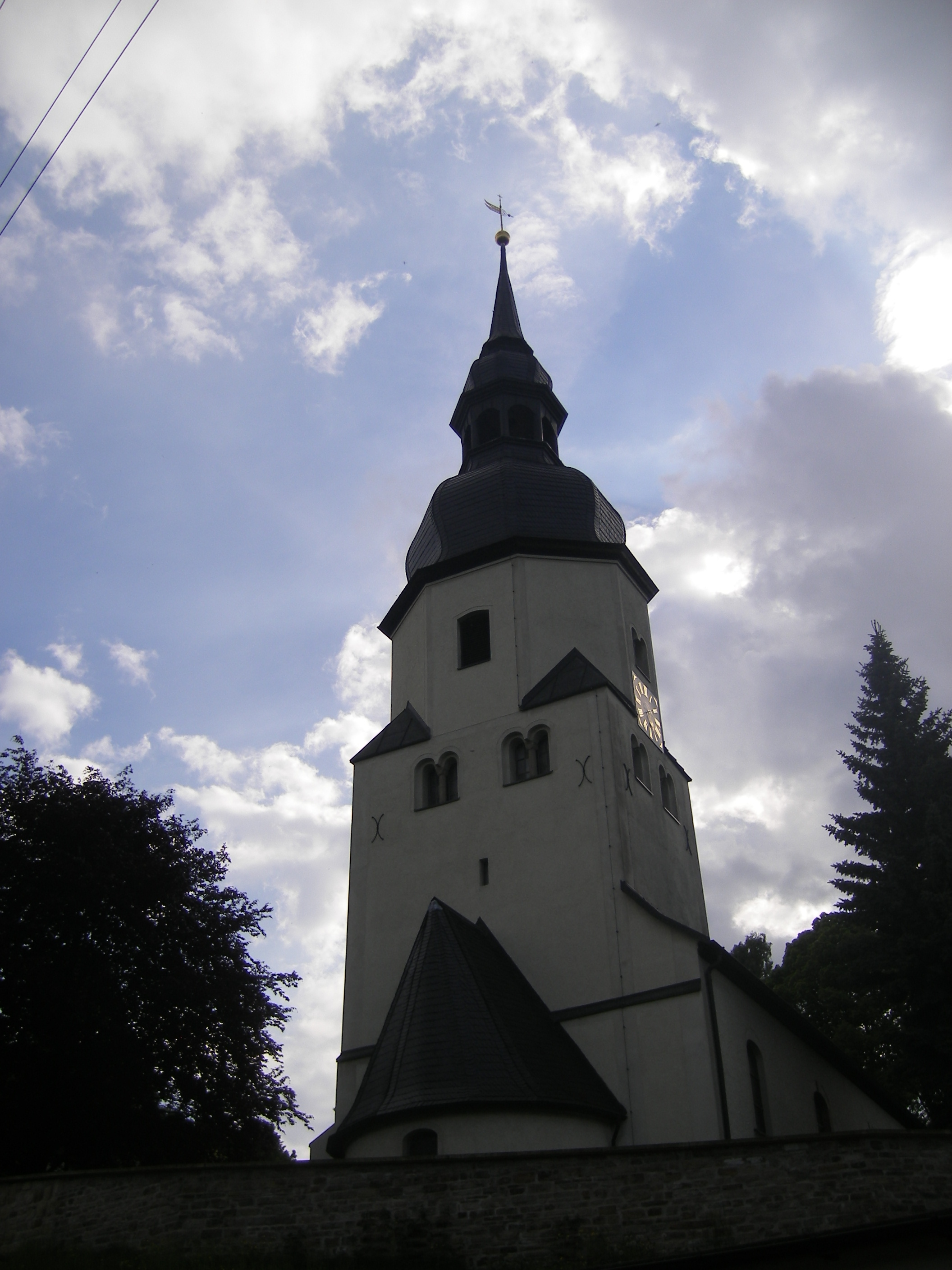 This picture shows the church of the thuringian village Grünberg, near Altenburg.